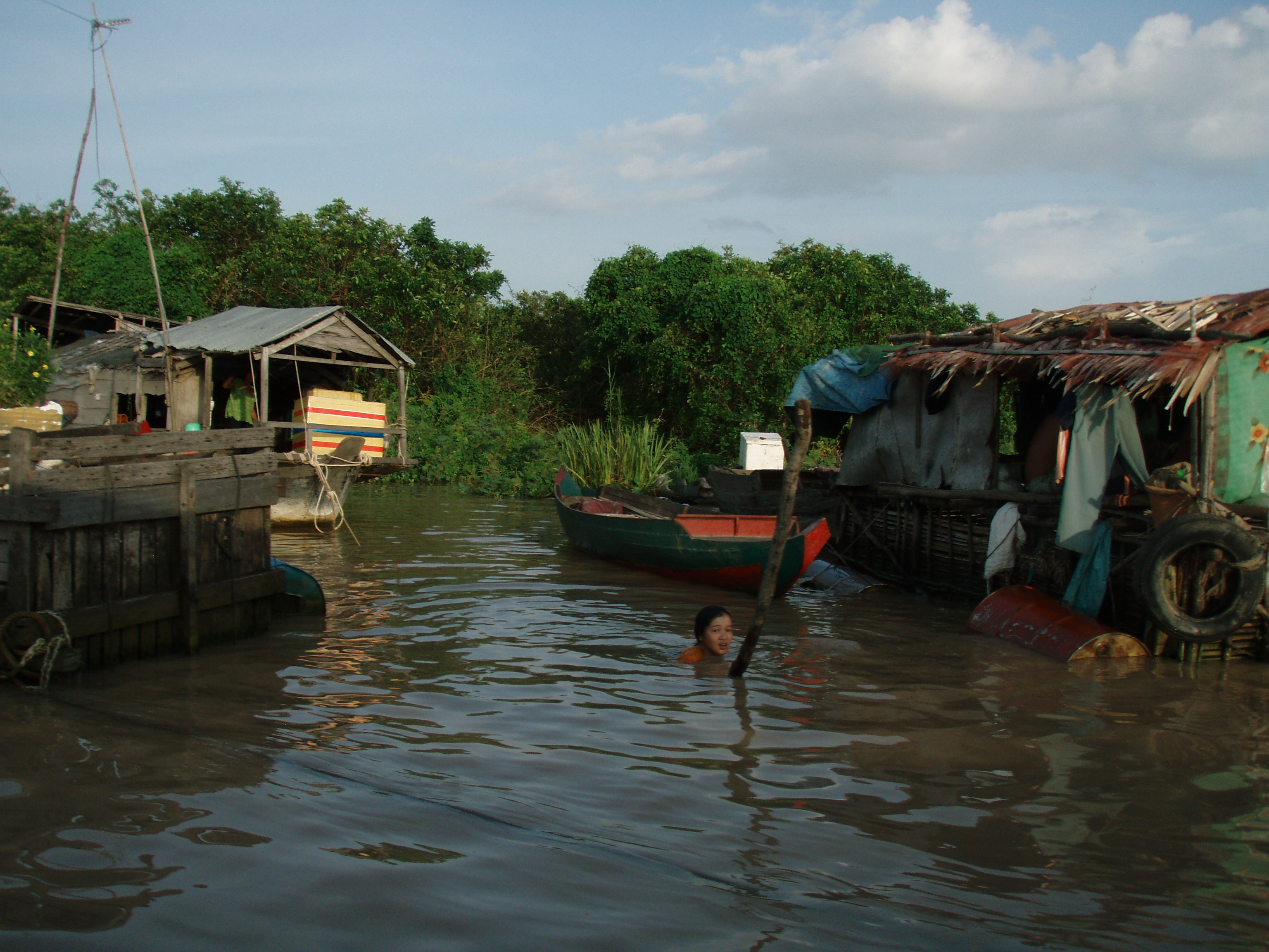 Life on the River, outside of Siem Reap Cambodia